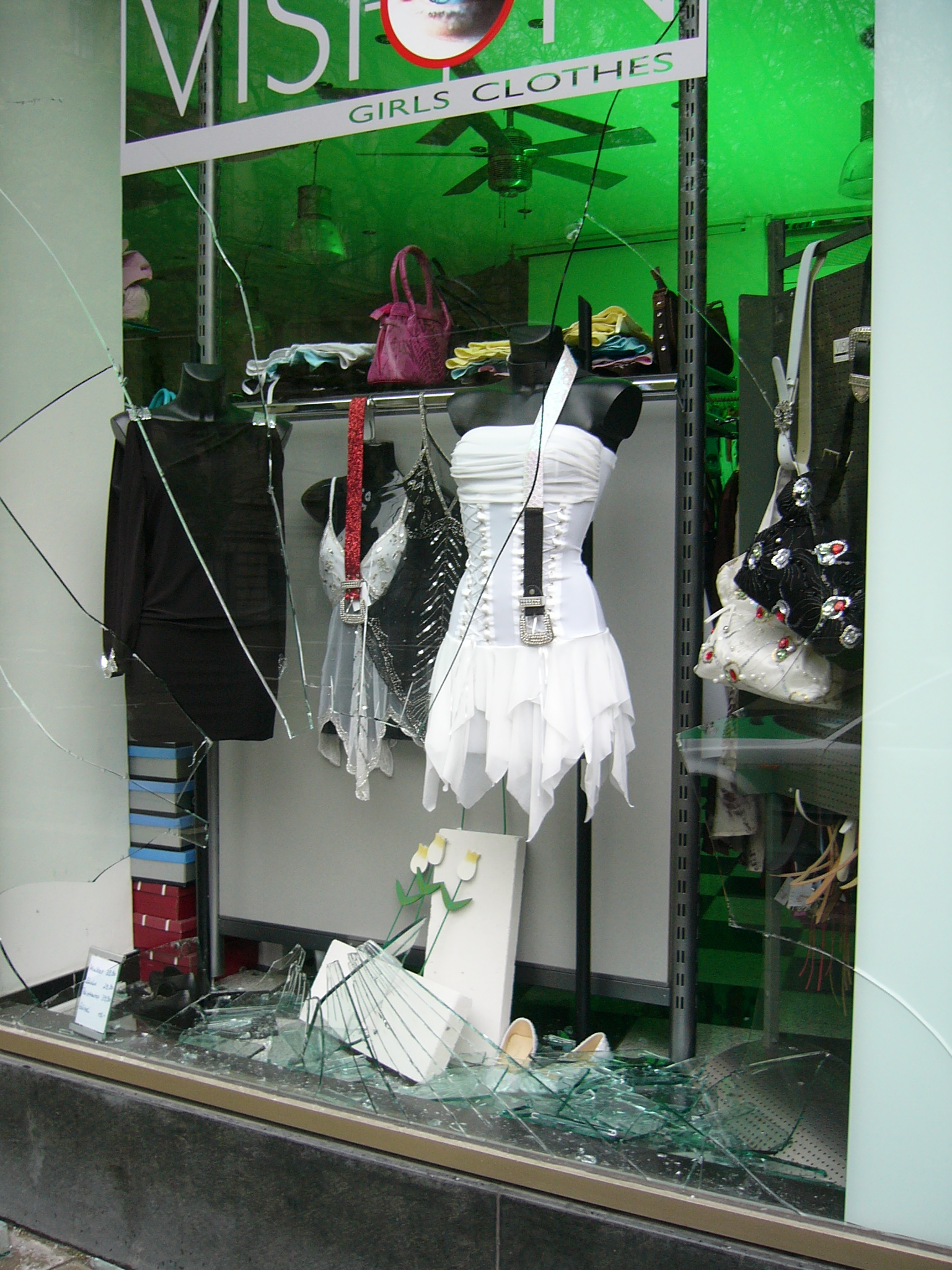 Damage to property (Shop window) due to violence.